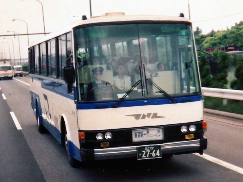 East Hapan Railway Co. 644-5971 MITSUBISHI MOTORS P-MS715S 1987年6月頃 首都高速道路湾岸線にて 投稿者が並行するバス車内から撮影したものをスキャン Photo by Cassiopeia_sweet.